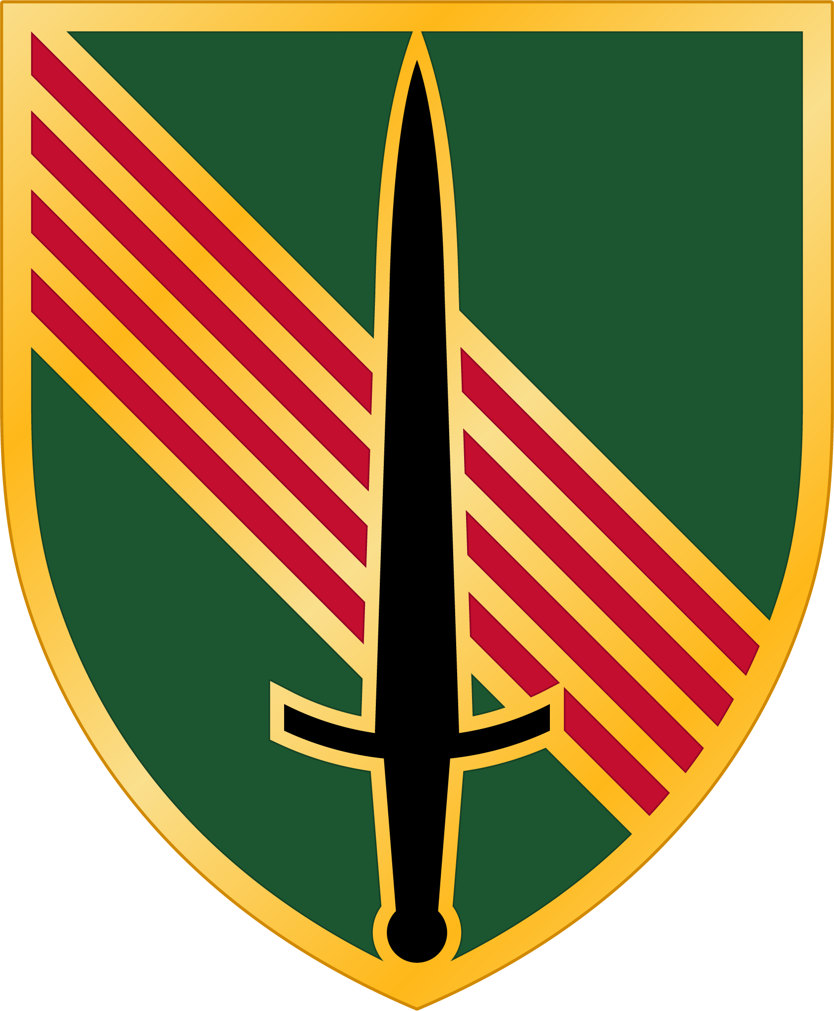 U.S. Army's 4th Security Force Assistance Brigade distinctive unit insignia